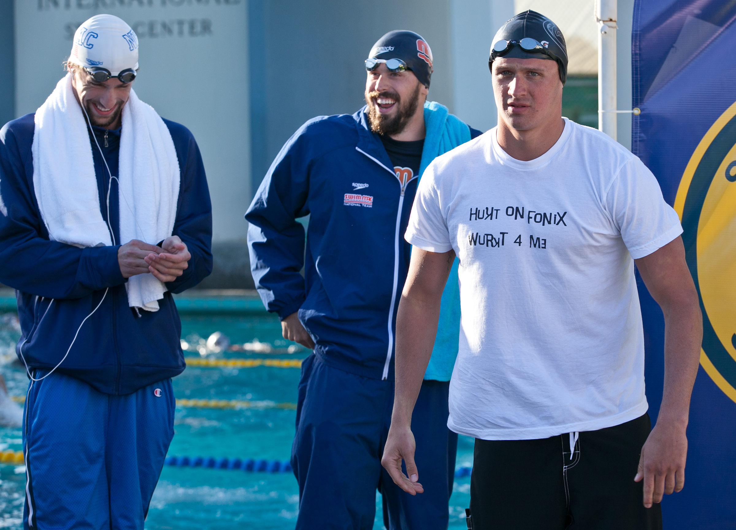 Michael Phelps and Ryan Lochte before the 100-meter butterfly. Contact JD Lasica for re-publication rights at .